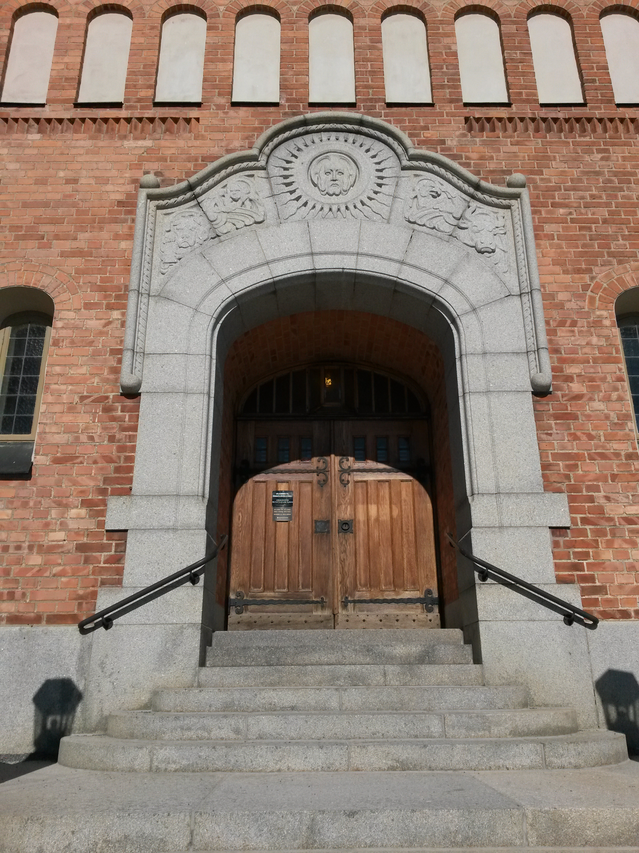 The church building of "Örnsköldsviks kyrka" at Parkgatan 6 in Örnsköldsvik